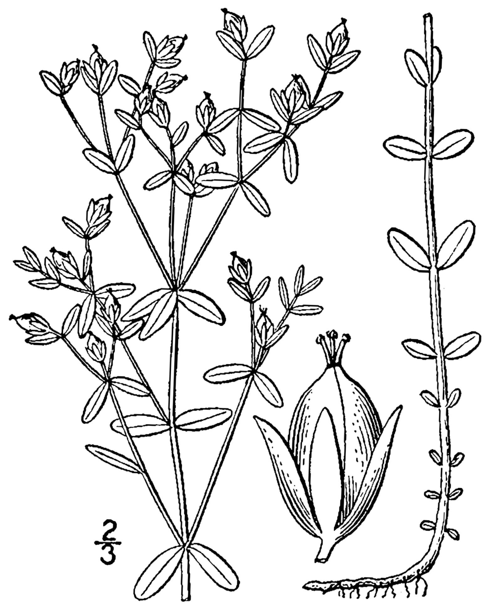 Hypericum boreale (Britton) E.P. Bicknell - northern St. Johnswort